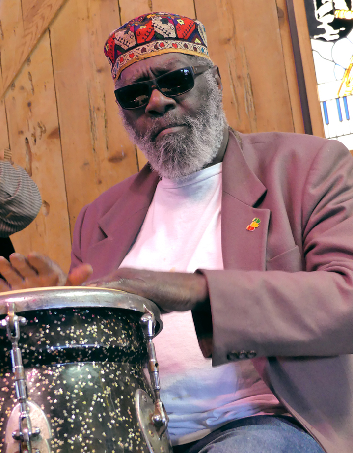 Big Black at Bach Dancing & Dynamite Society, Half Moon Bay CA 7/8/18